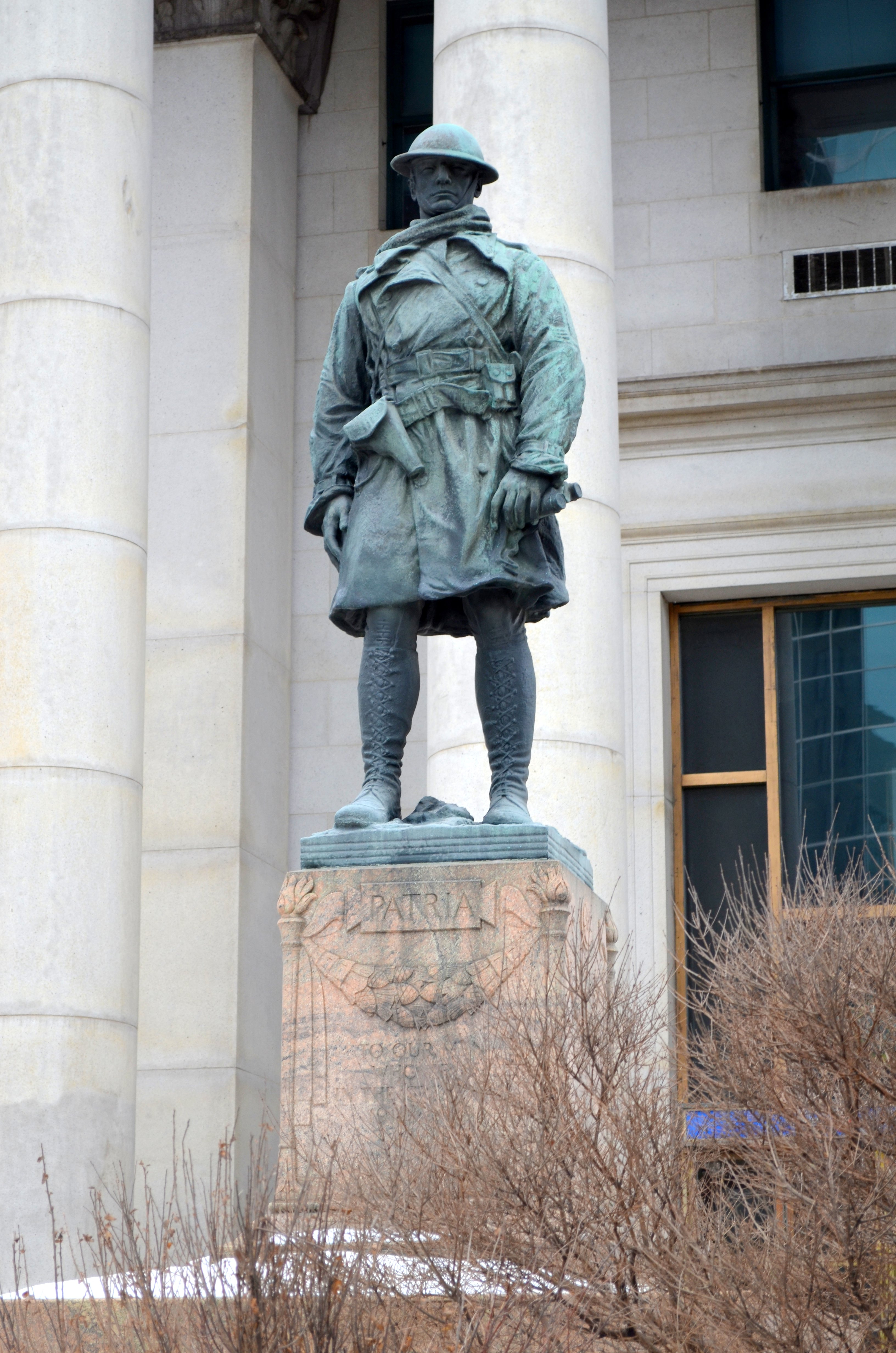 First World War Memorial statue in front of Bank of Montreal at Portage and Main in Winnipeg, Manitoba